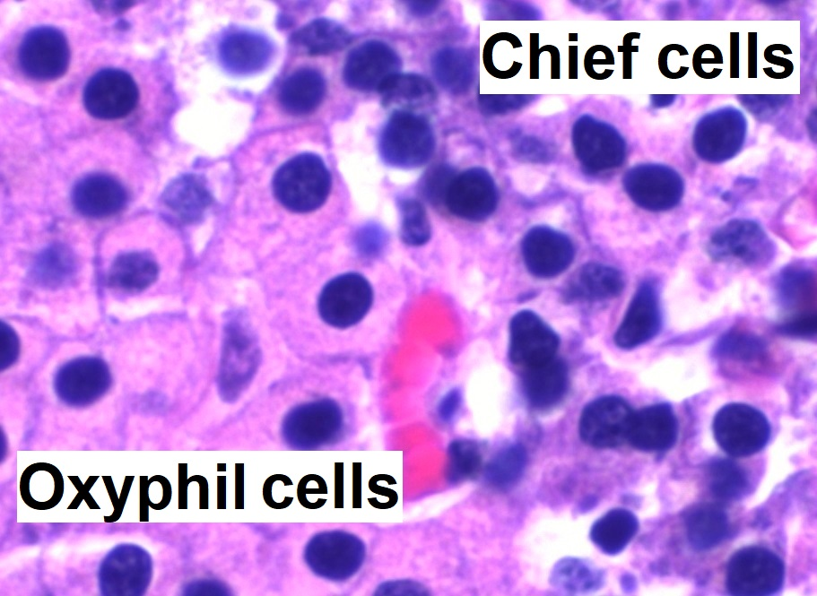 Histology of the parathyroid gland, showing oxyphil and chief cells. HE stain.